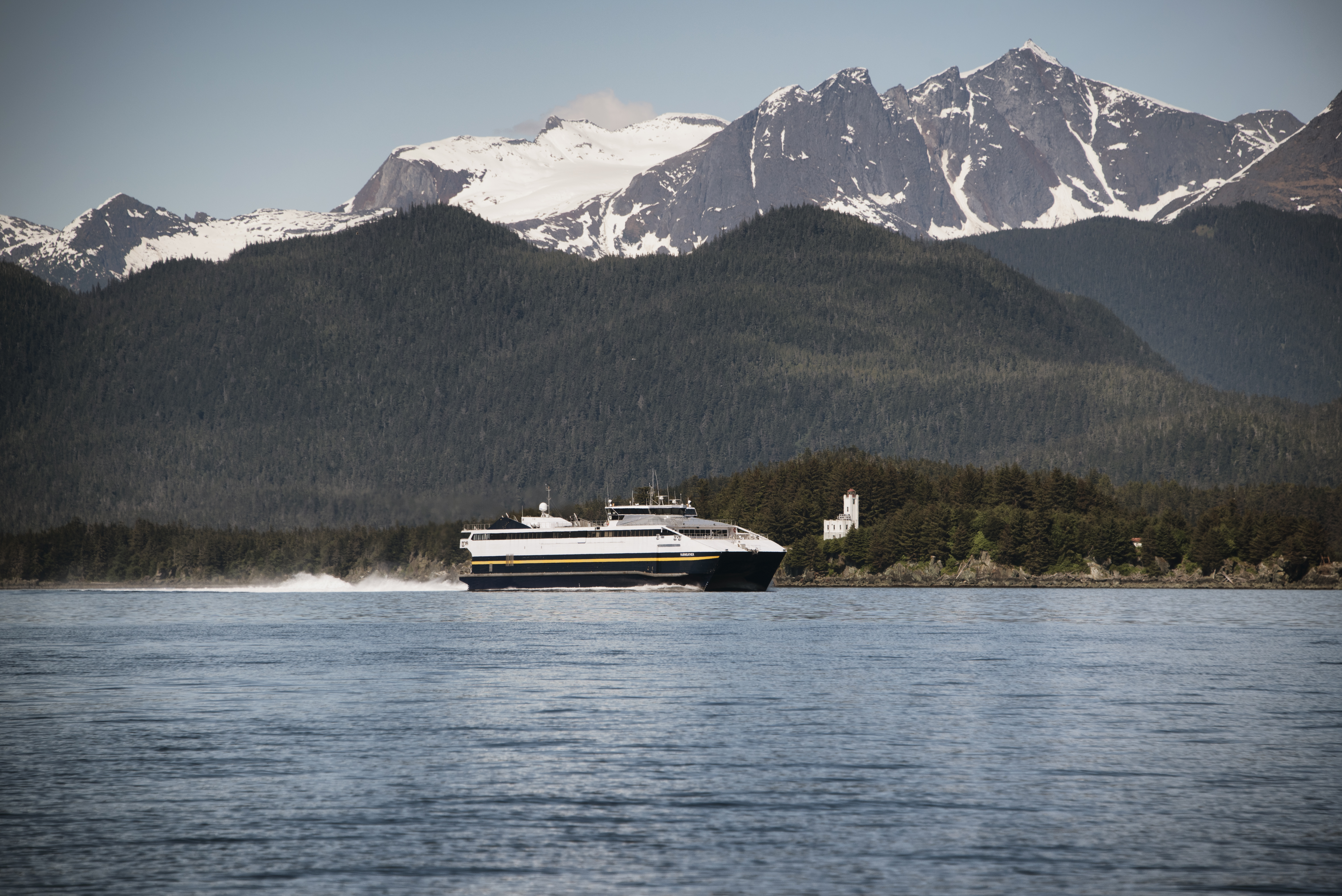 Alaska Marine Highway Fast Ferry mv Fairweather passing Sentinel Island Lighthouse, Favorite Channel, Southeast Alaska.